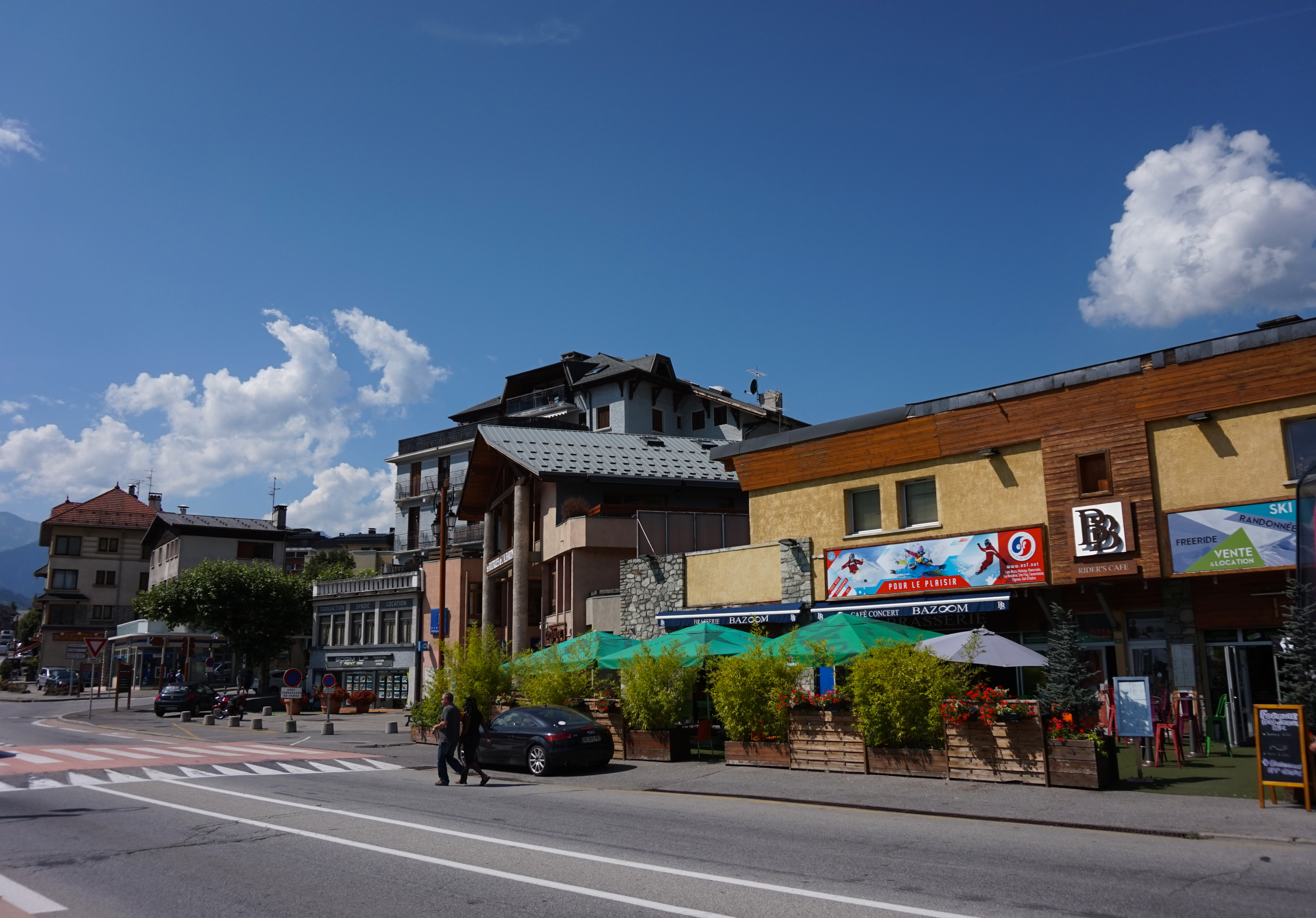 Bourg-Saint-Maurice This photograph was taken with a Sony Alpha a5000.